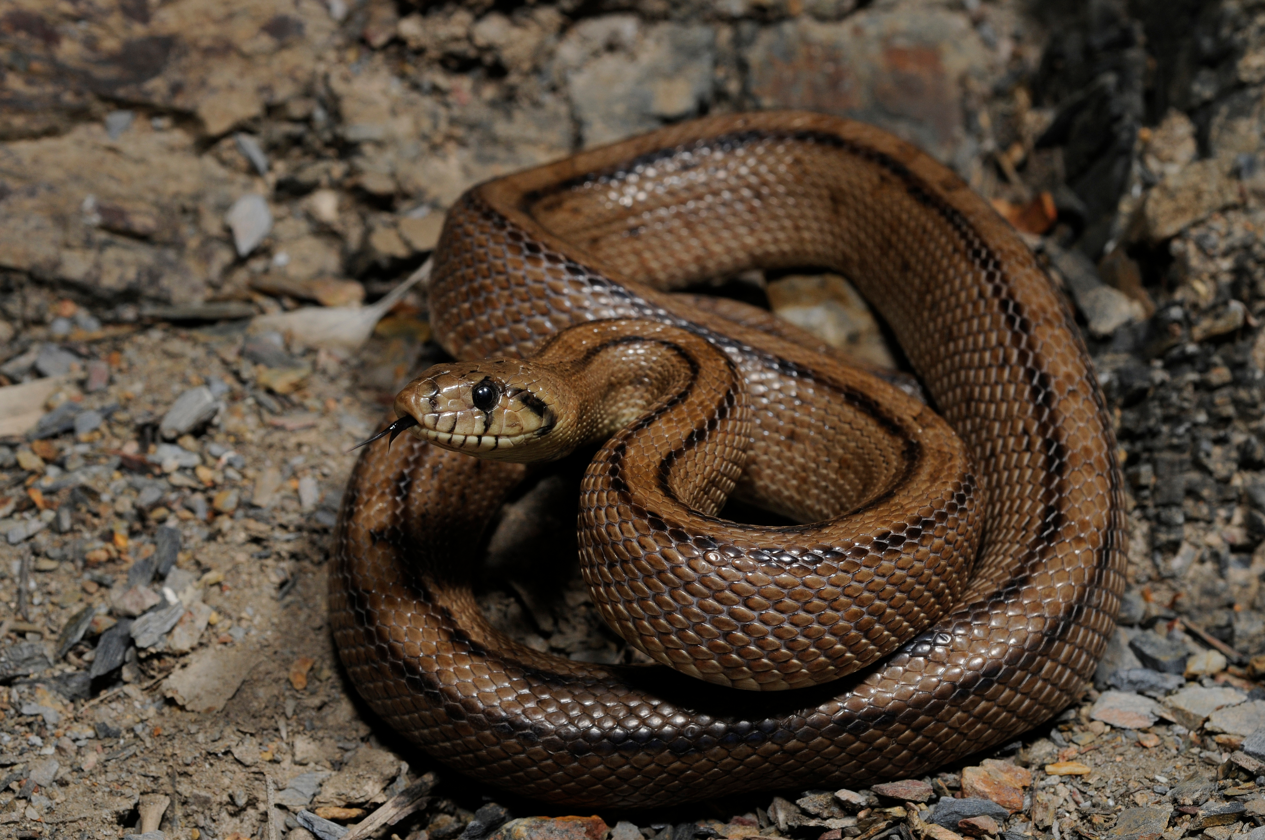 Rhinechis scalaris